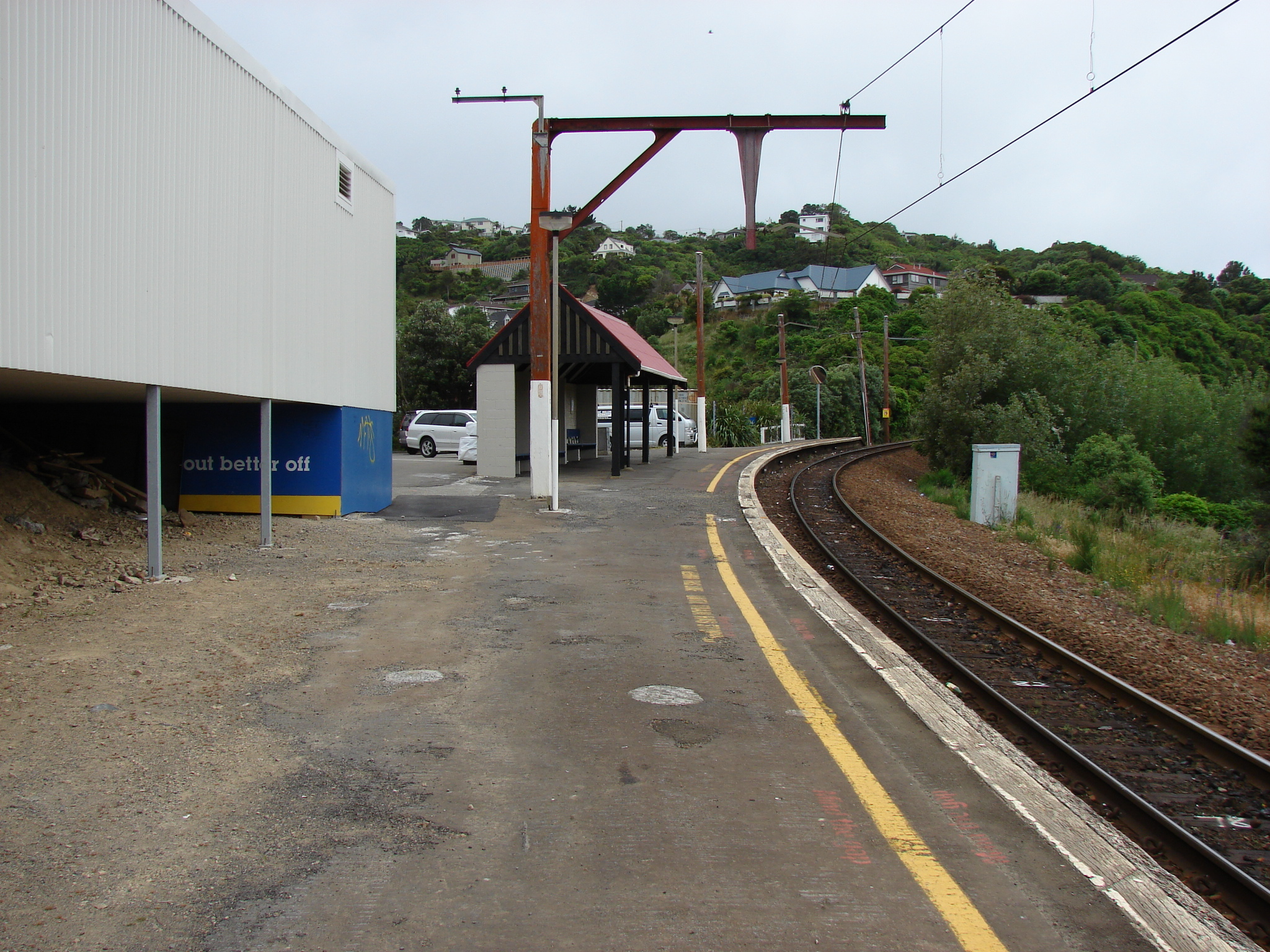 Crofton Downs railway station, looking in the direction of the car park and north to Johnsonville. Photographed by Matthew25187 on 2007-12-17.